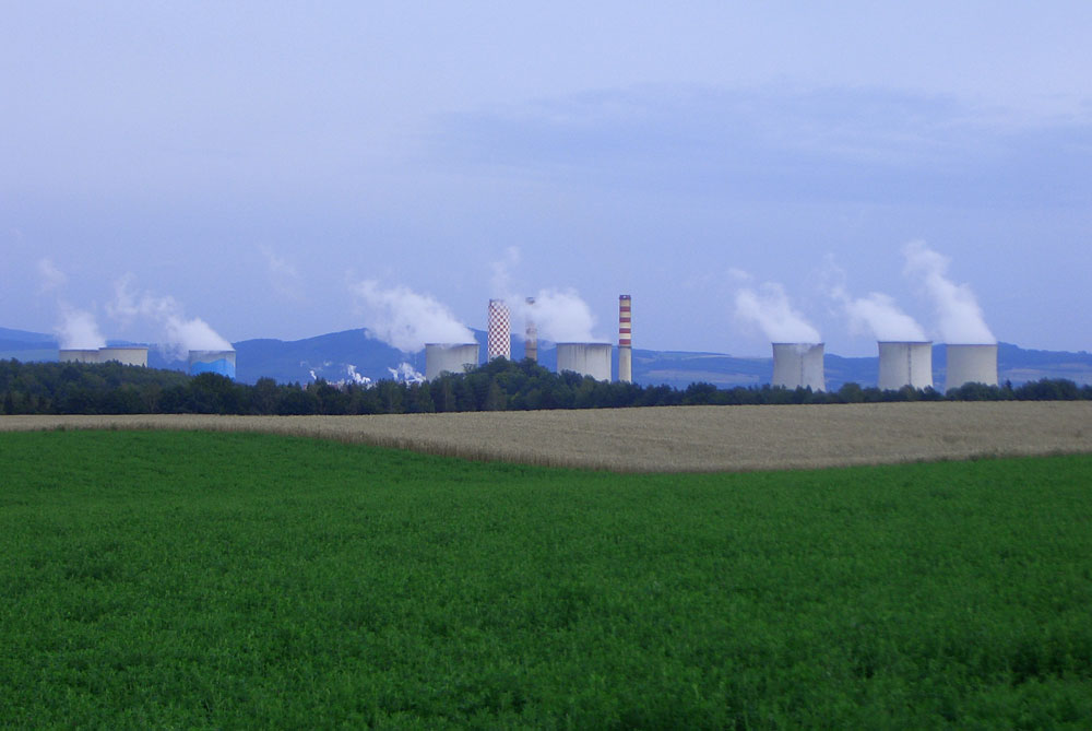 Turów Power Plant in Turów, Poland, as seen from Germany.